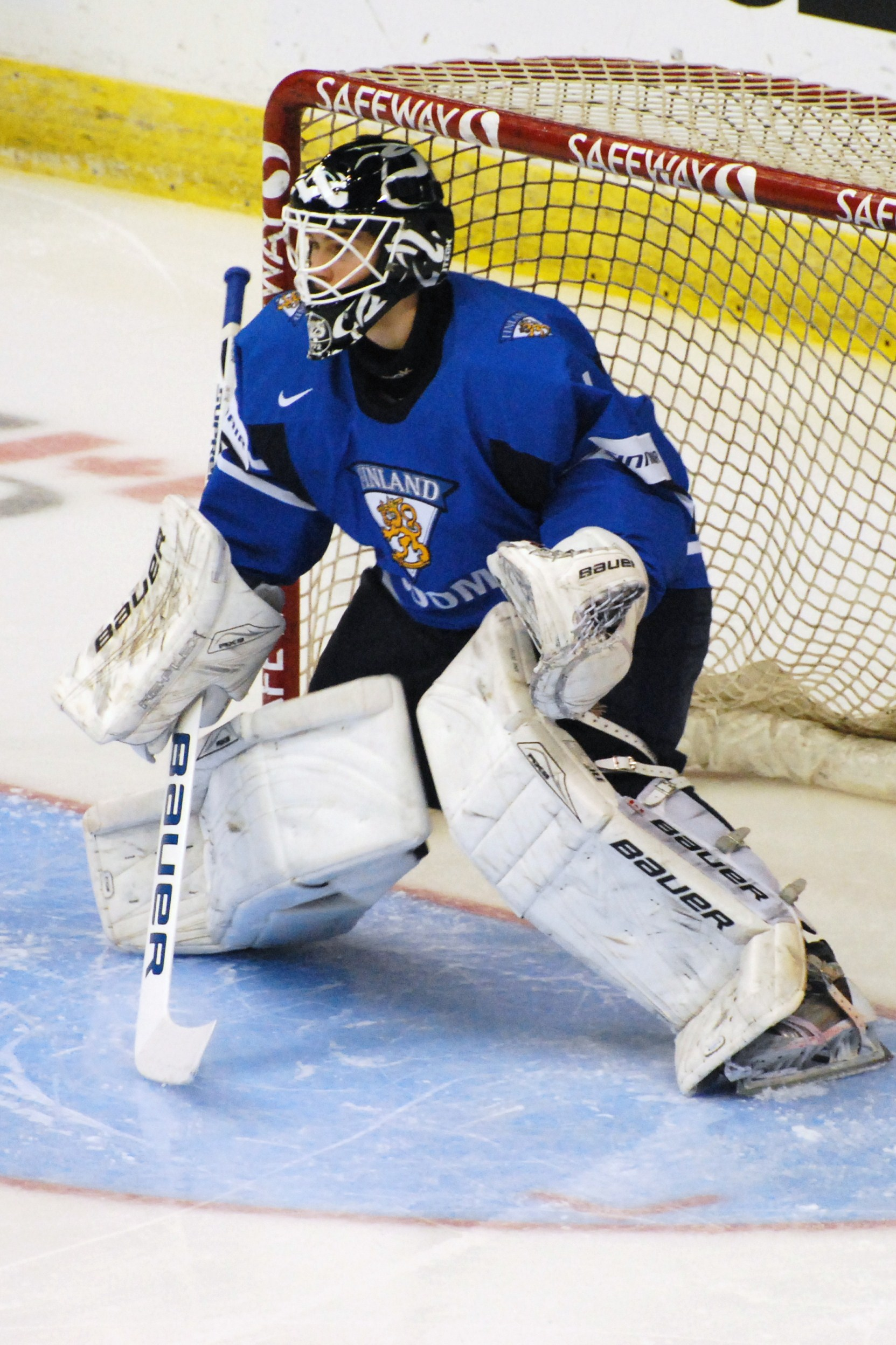 Joni Ortio